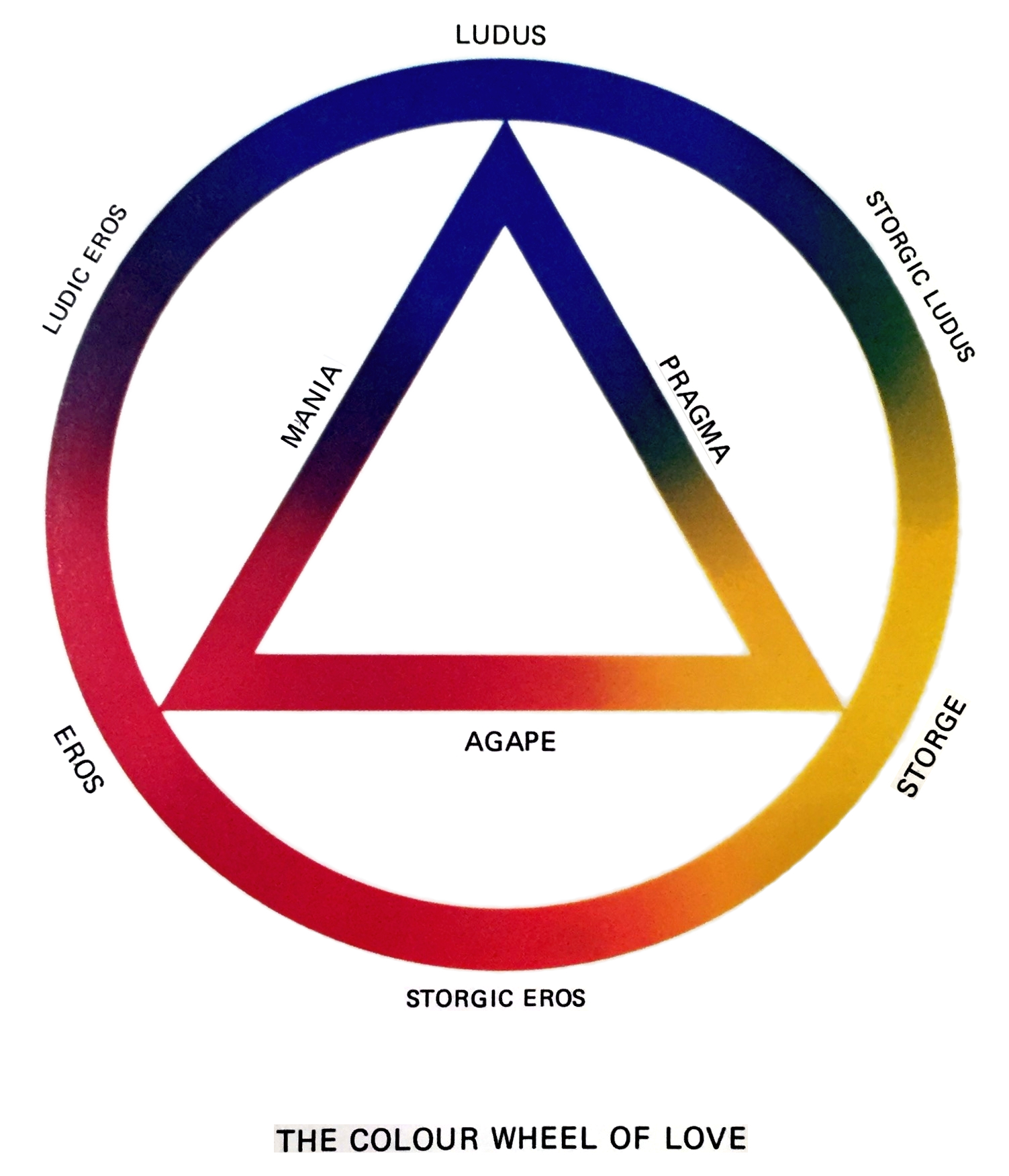 Cloud wheel as according to JohnAlan Lee